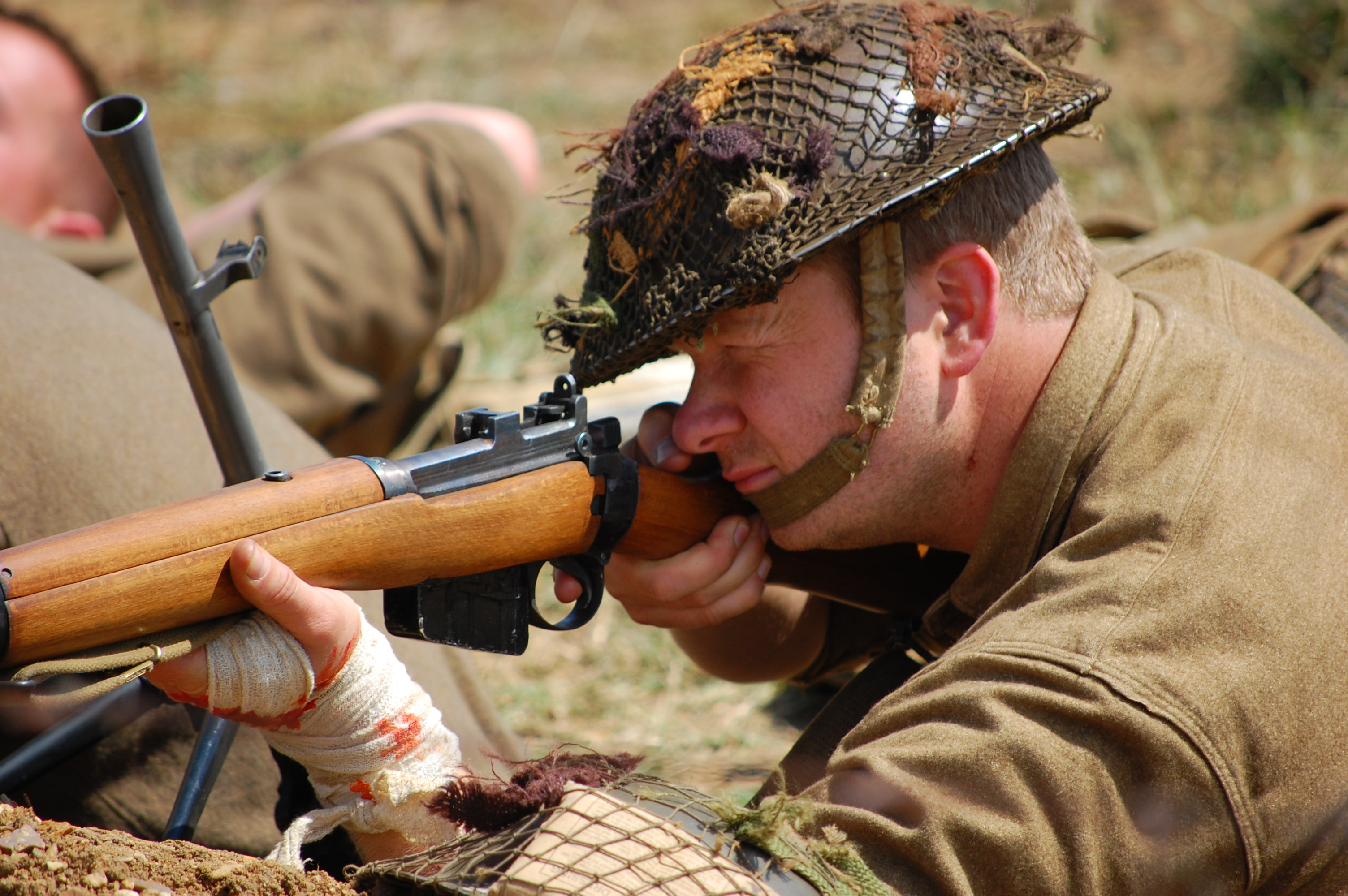 British Soldier with Lee Enfield (Taken in Beltring, England)